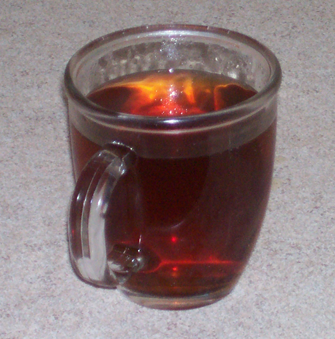 A glass of my mother's tea :p